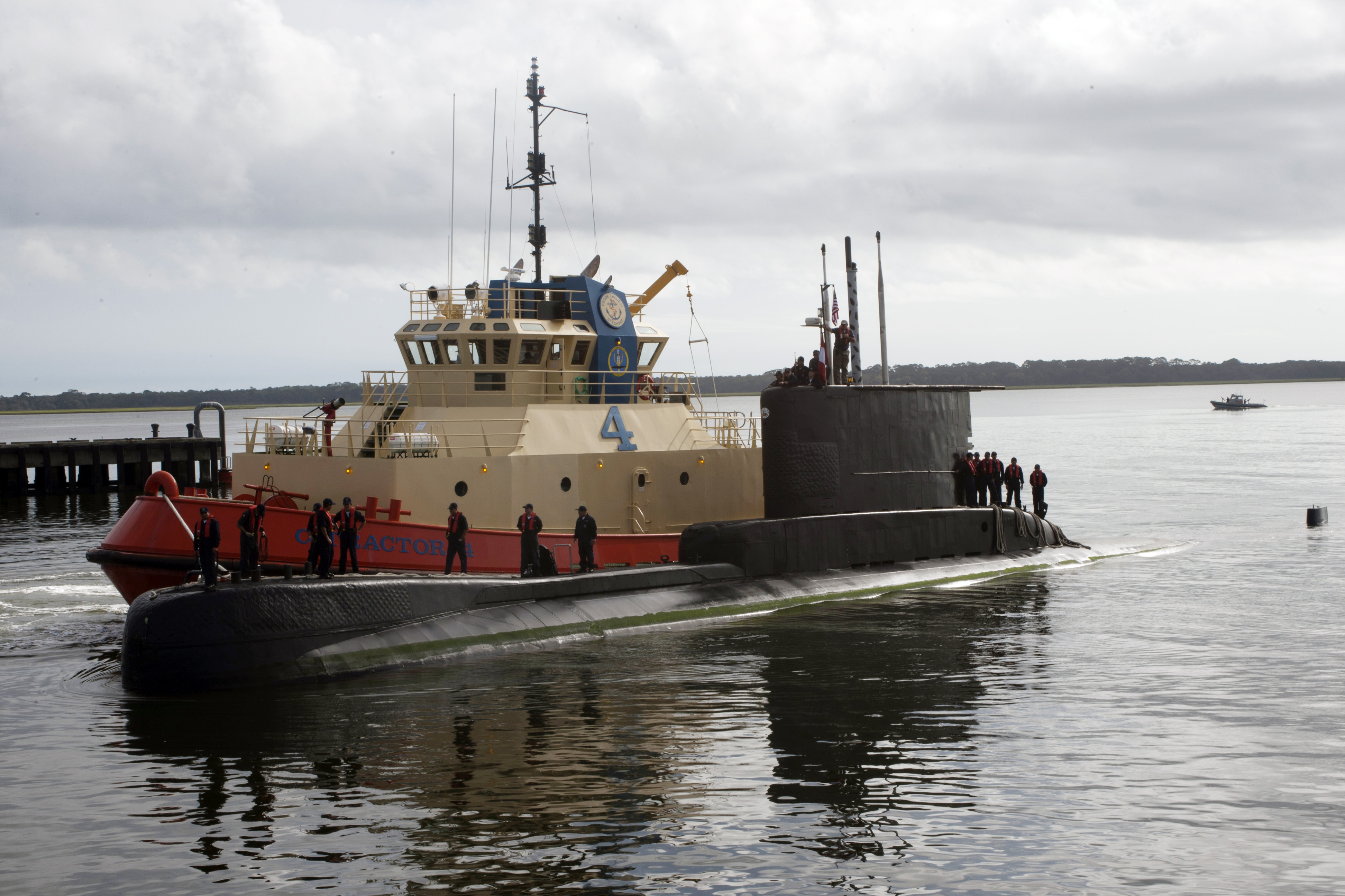 KINGS BAY, Ga. (Sept. 20, 2011) The Peruvian navy submarine BAP Antofagasta (SS 32) arrives in Naval Submarine Base Kings Bay for a port visit. (U.S. Navy photo by Mass Communication Specialist 1st Class James Kimber/Released)